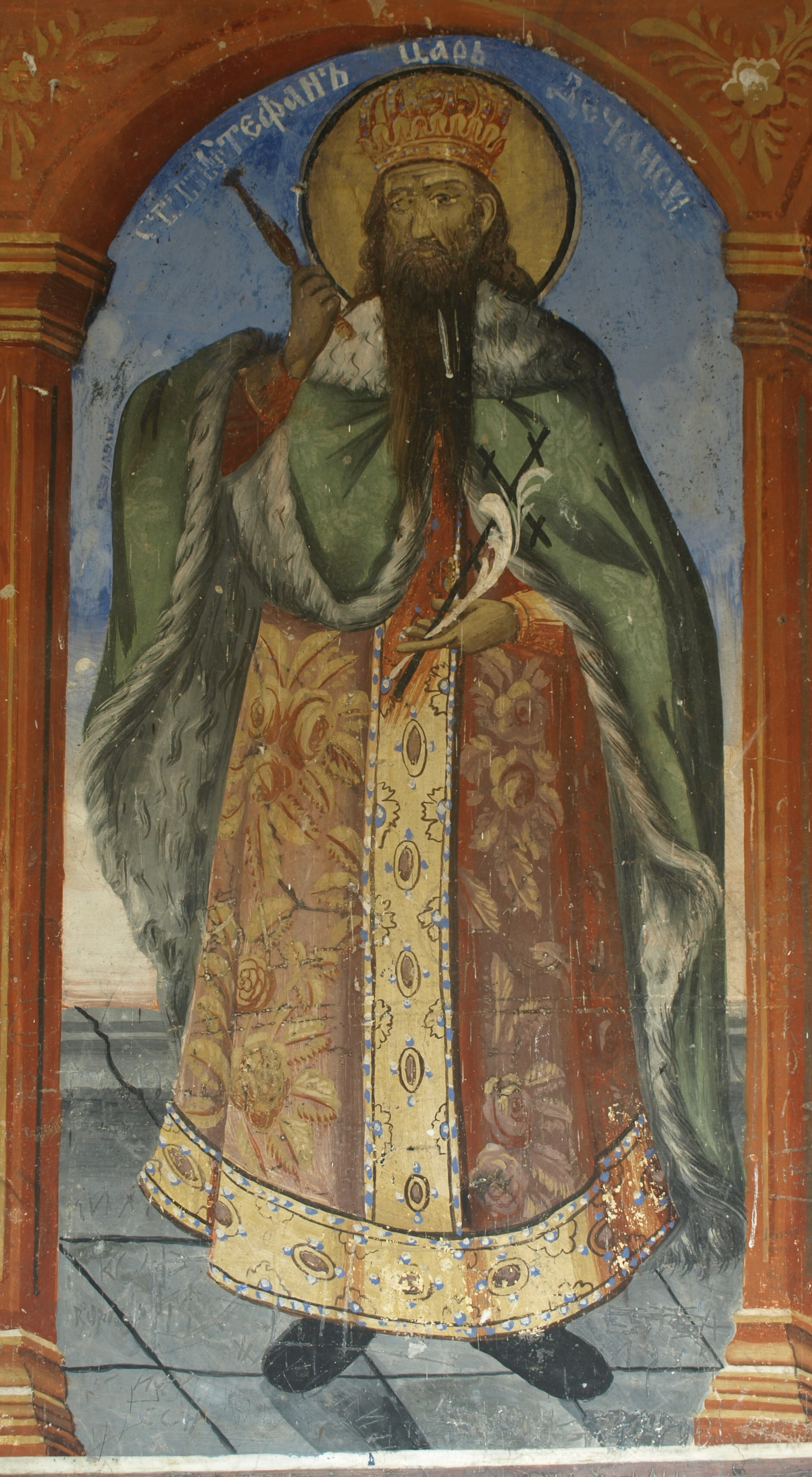 Monastery Sveti Jovan Bigorski in Macedonia, Painting of Stefan Uroš III Dečanski of Serbia at the outer walls of the church